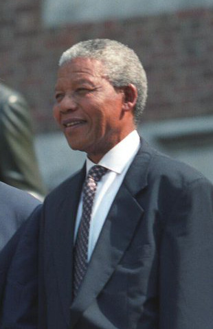 Nelson Mandela, July 4 1993.